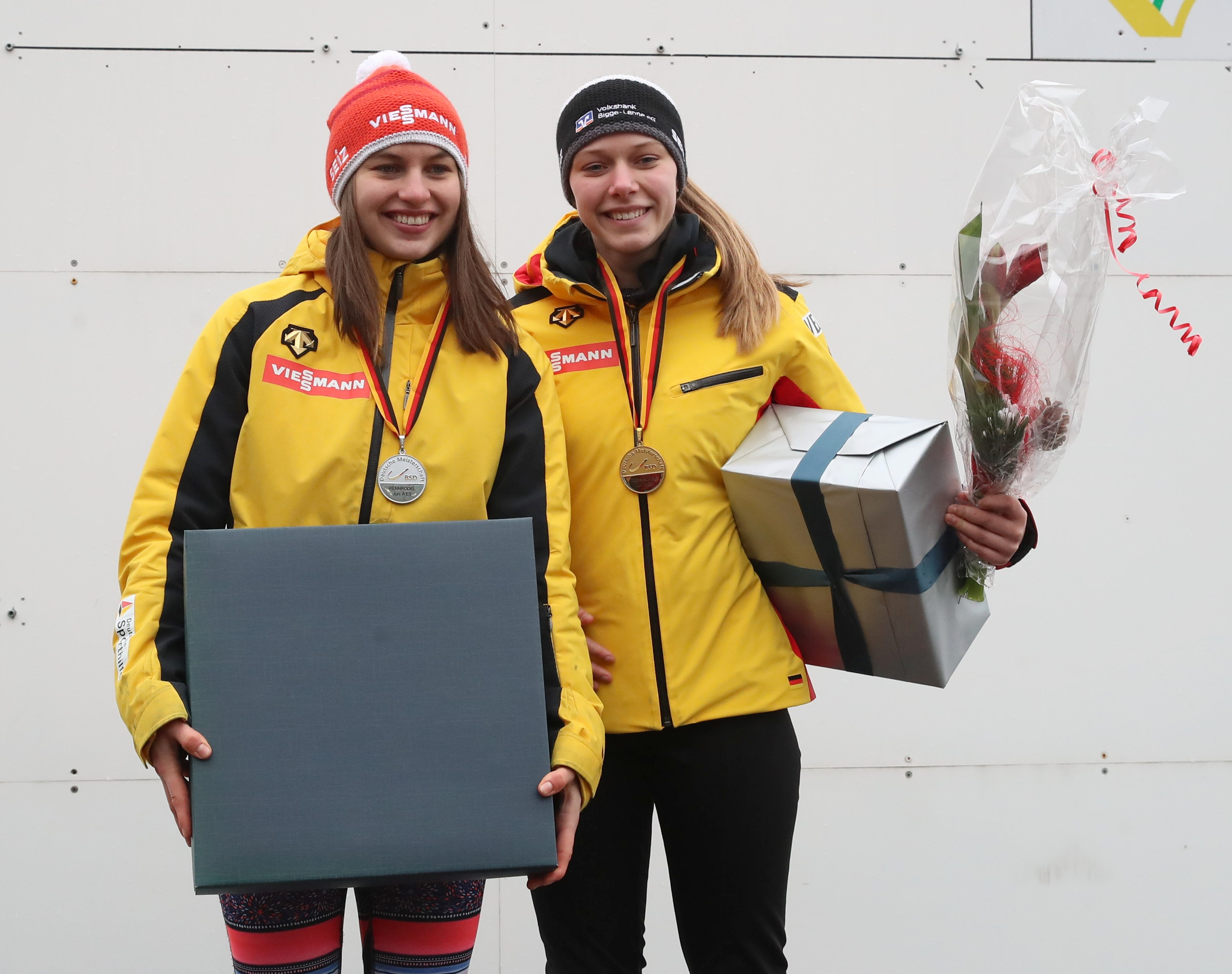 Victory Ceremony at the German Luge Championships 2019 in Oberhof